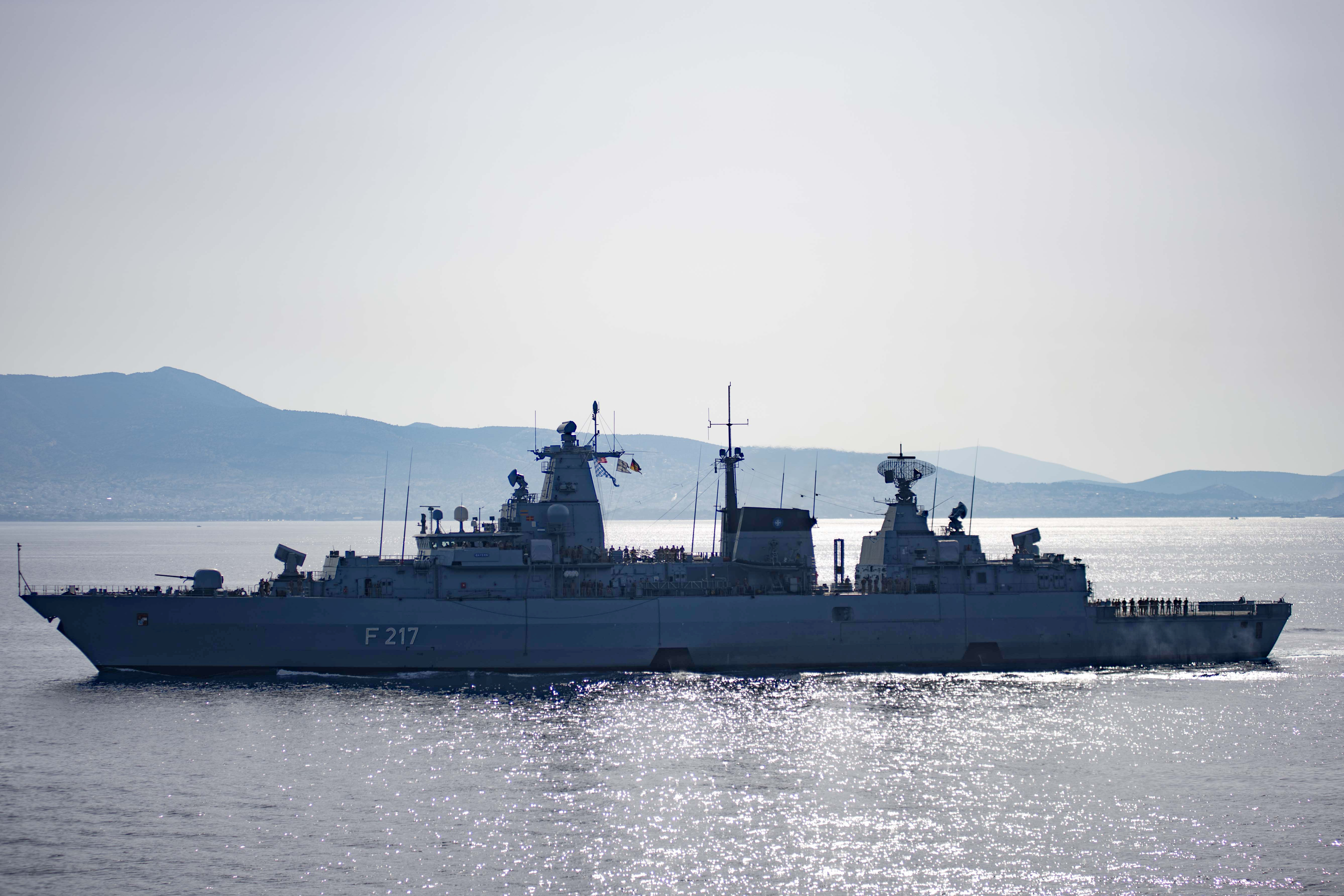 The German frigate Bayern (F217) underway in the Mediterranean Sea on 23 May 2018. Note that the flies a small American flag as she passed the U.S. Navy guided-missile destroyer USS Bulkeley (DDG-84), not visible. Note the large blue-white Bavarian flag.